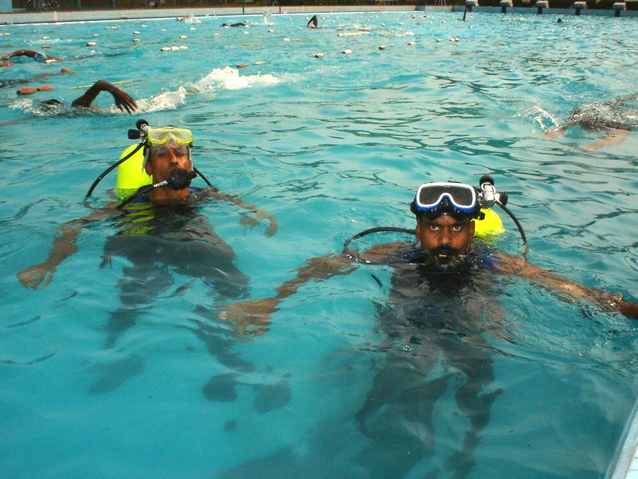 Swift Water Rescue Training of NDRF